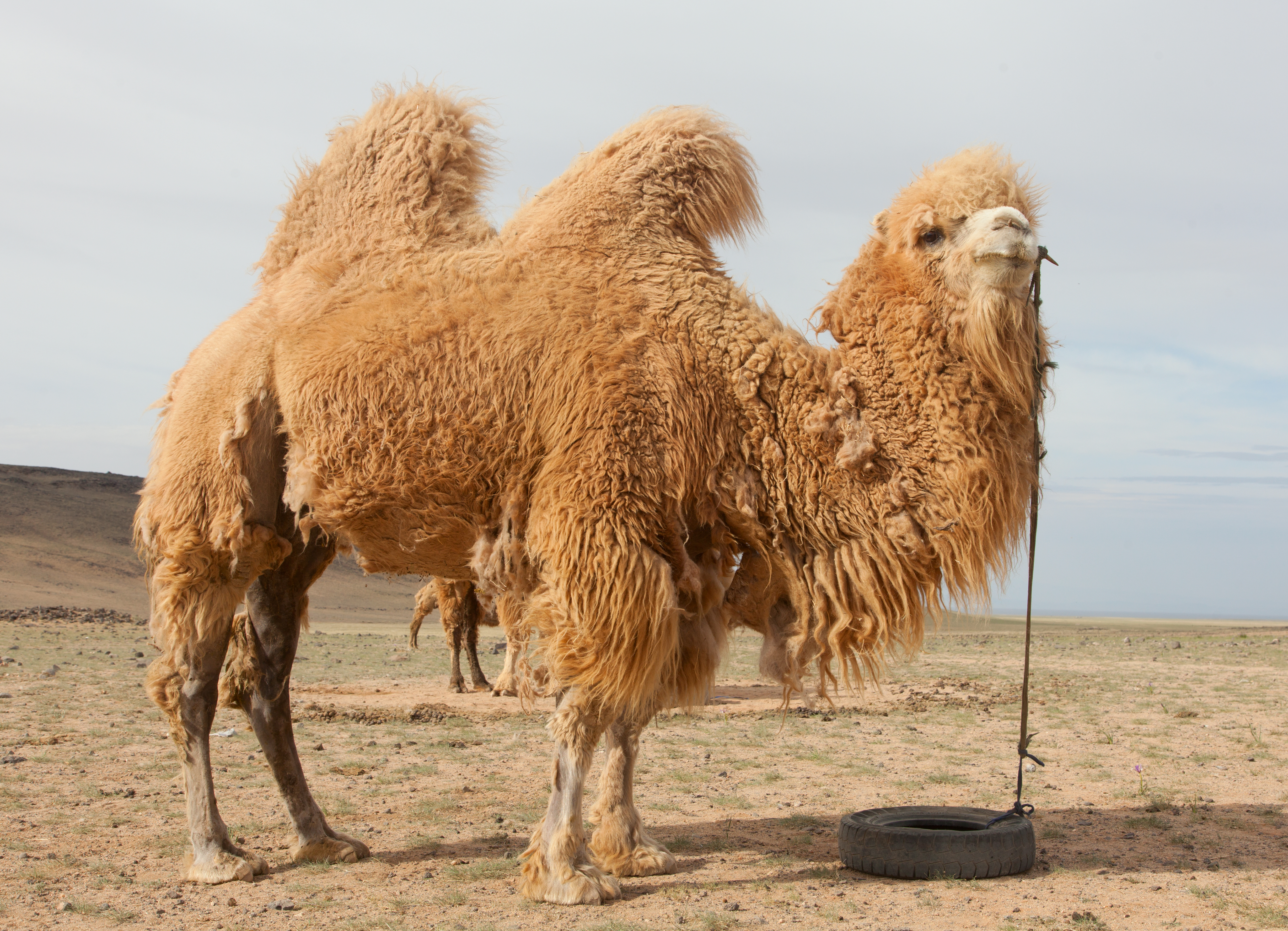 Camel farm in central Mongolia in May. Khovd aimak region